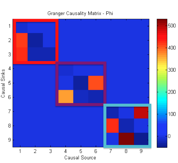 Granger Causality Matrix Before Significance Tests